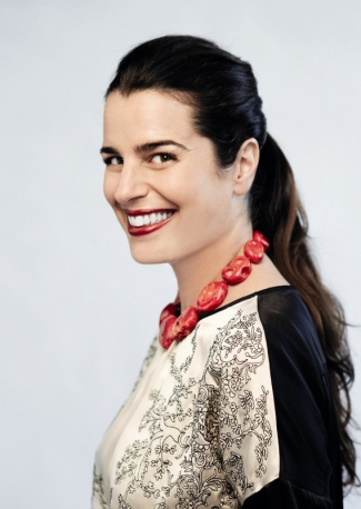 Veronica Etro